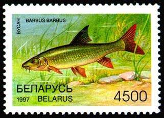 Stamp of Belarus